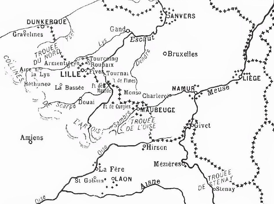 Diagram of the French-Belgian frontier zone in 1914, showing fortresses.